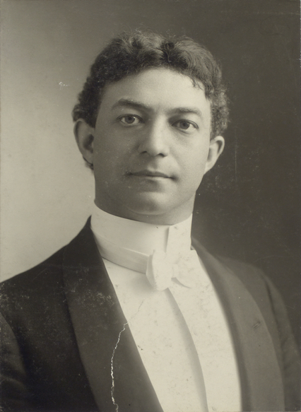 Photo of actor Edmund Breese by Elmer Chickering, Boston